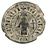 Prince Kostandin II (King Constantine I) of Armenia.